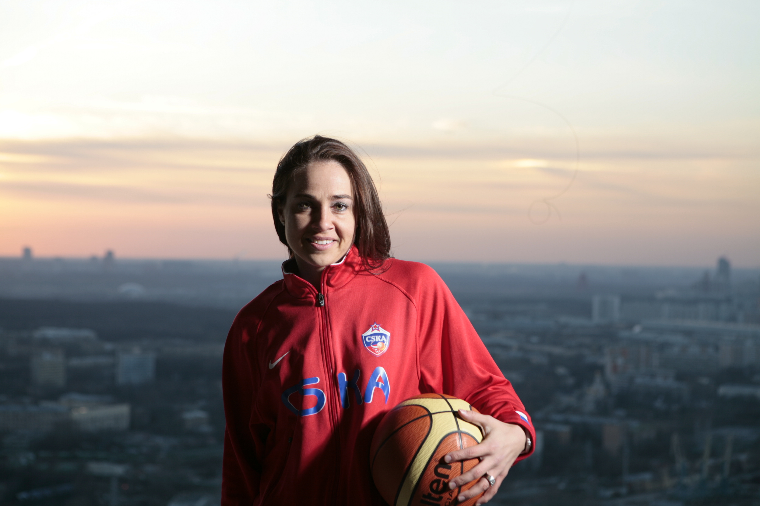 Becky Hammon